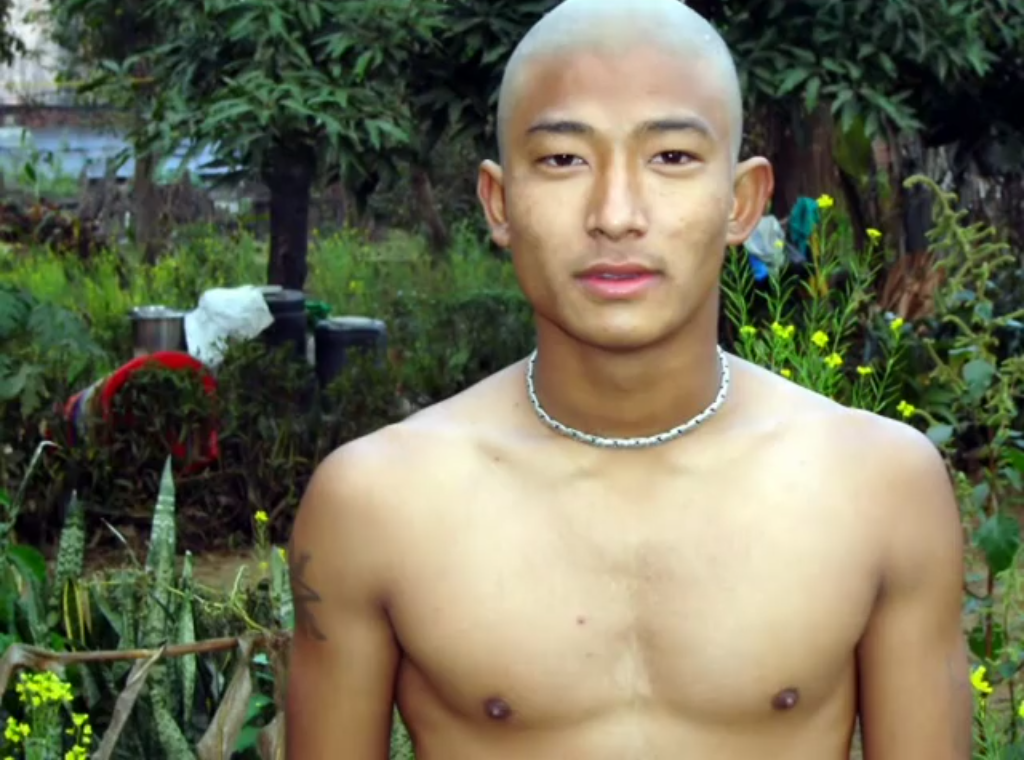 Male member performing keta puja with his head shaved and bare-chested as a part of the traditional newar ritual.